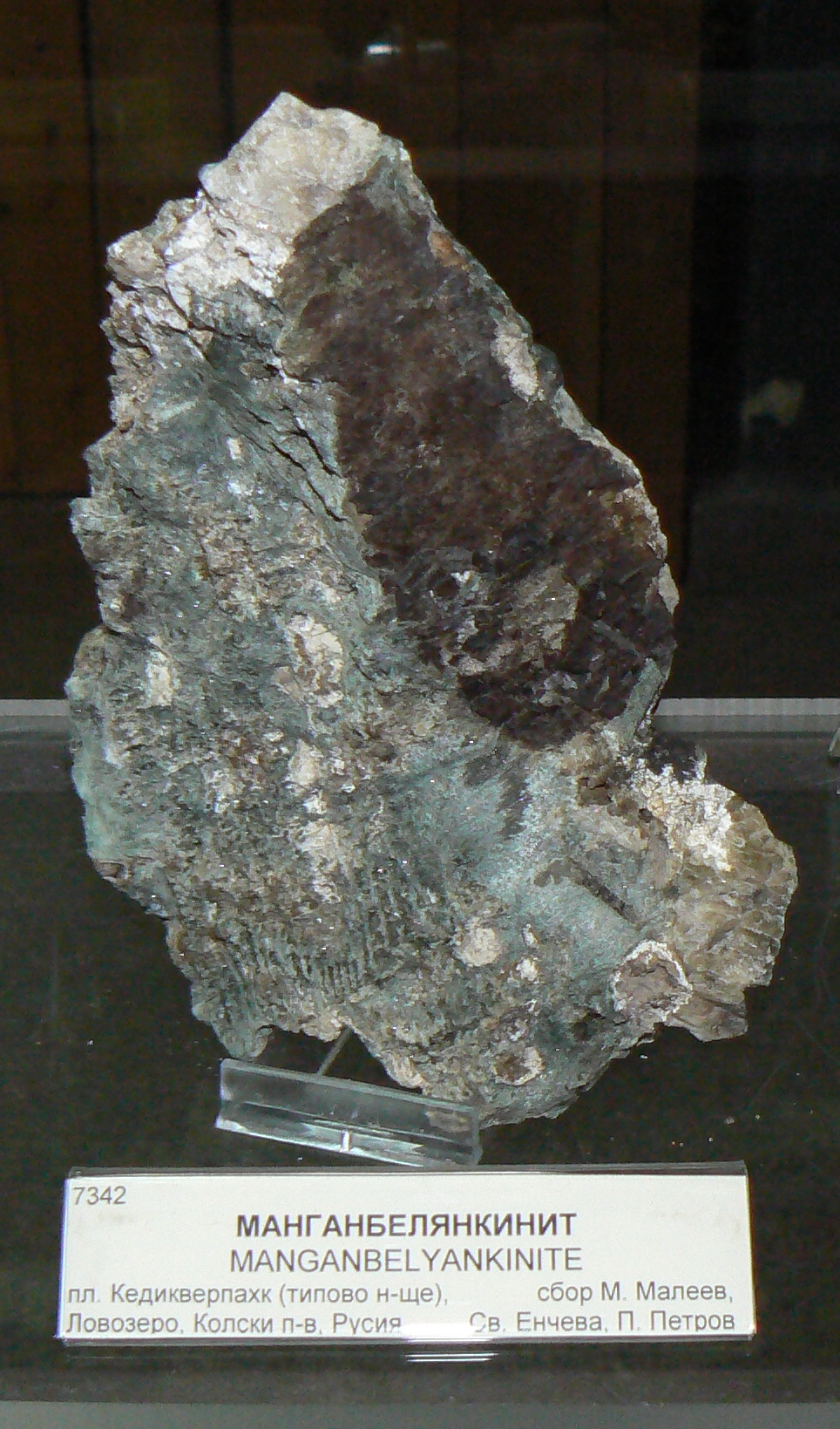 Piece of the mineral manganbelyankinite. Discovered in Lovozero, Kola Peninsula, Russia. Exhibit of the "Earth and Man" Museum in Sofia, Bulgaria.